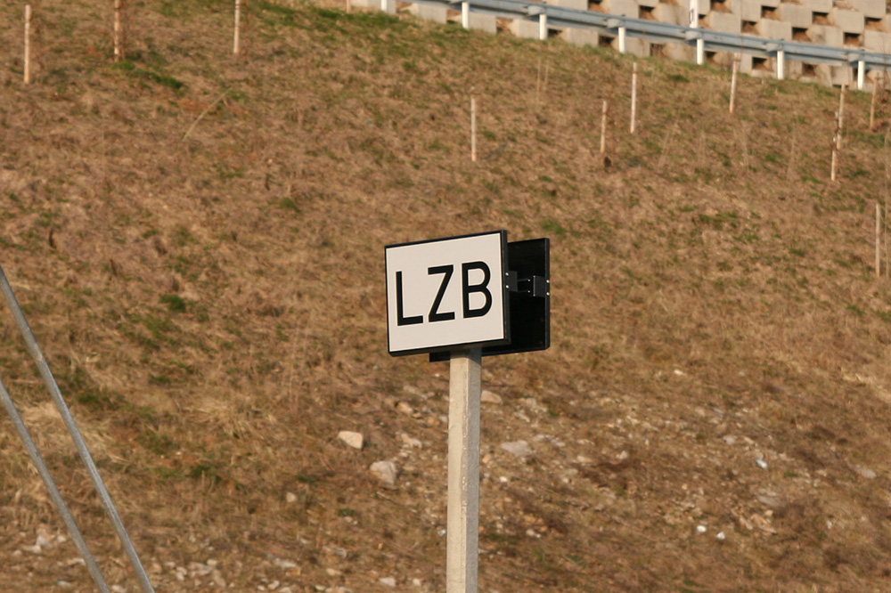 A sign indicating a new section of the Linienzugbeeinflussung, a railway signalling system, that consists of several (virtual) blocks. This image has been taken near the south entrance to the Euerwang-Tunnel, Nuremberg-Ingolstadt high-speed railway line.